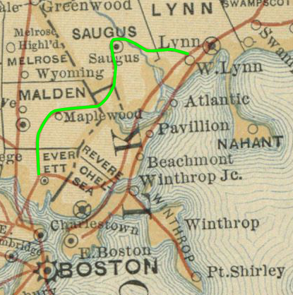 Map of Massachusetts northeast of Boston with the Saugus Branch Railroad in light green